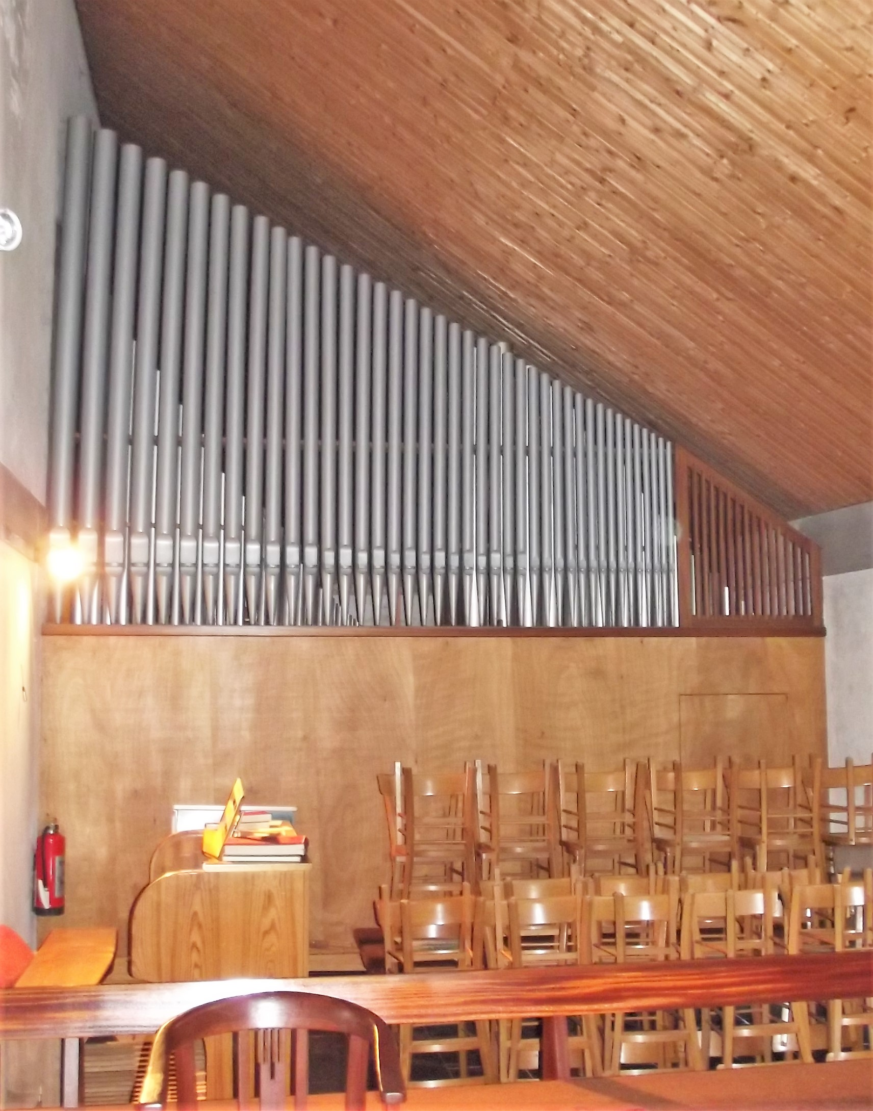 Interior of the roman catholic church in Bierfeld, Saarland